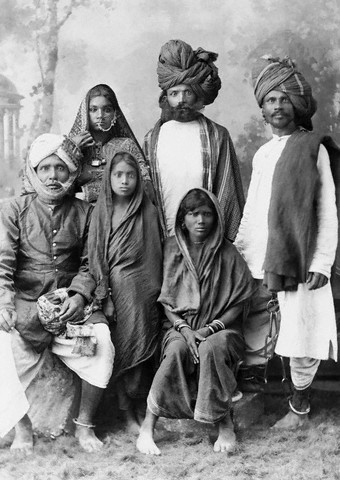 Family group of Dacoits (Robbers). The Indian thugs kill people by strangling them with their long kerchiefs which they carry on their shoulders.